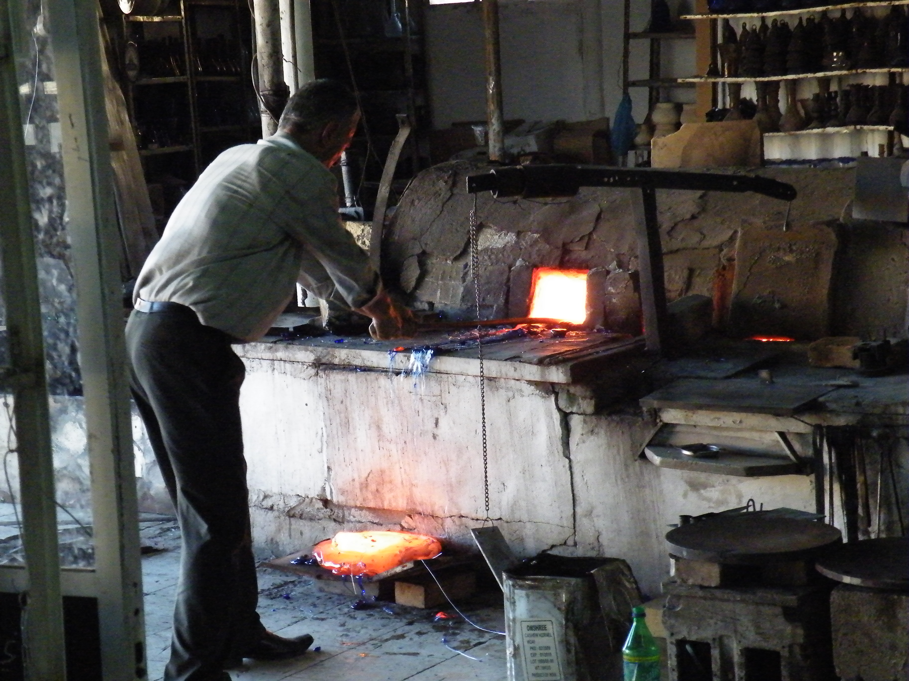 The owner of this glass factory, more than happy to demonstrate the work they do.